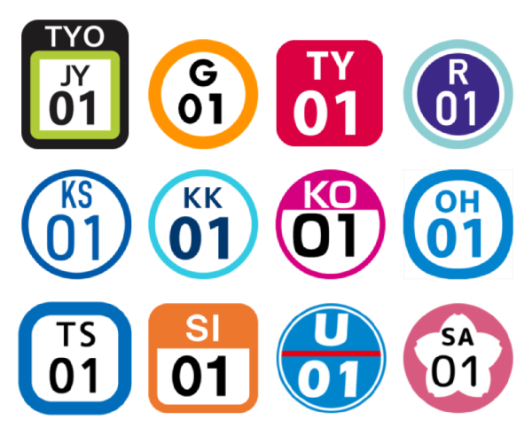 Examples of Station Number icons.